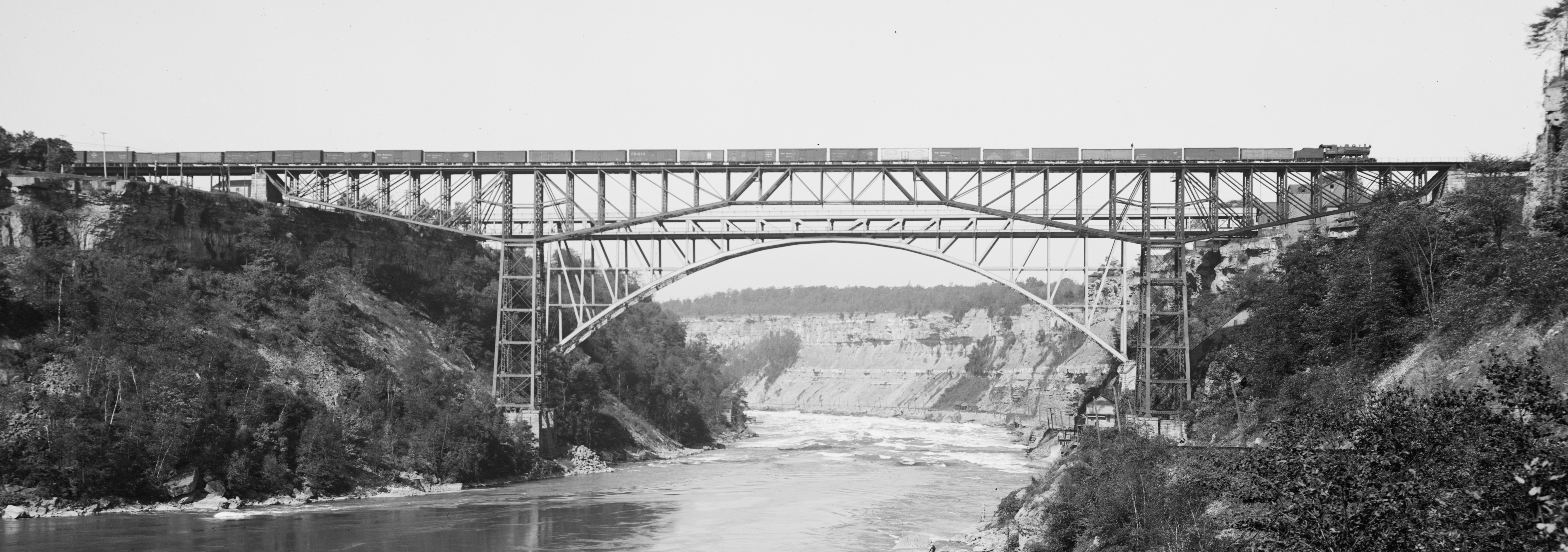 Niagara Cantilever Bridge and Whirlpool Rapids Bridge. Original image cropped to focus on bridges.